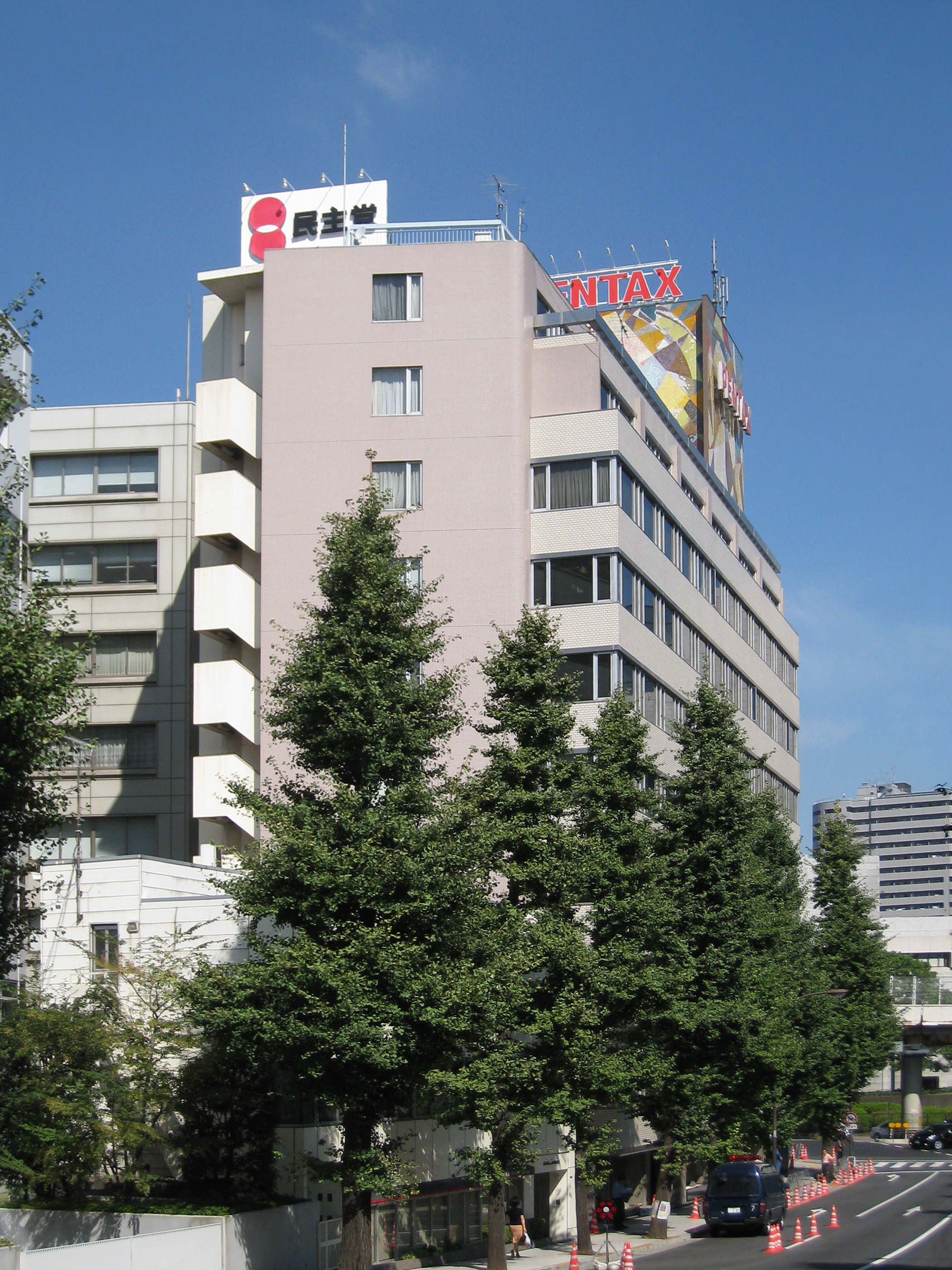 Democratic Party of Japan (民主党 Minshutō), located at Category:Nagatachō, Chiyda, Tokyo, Japan